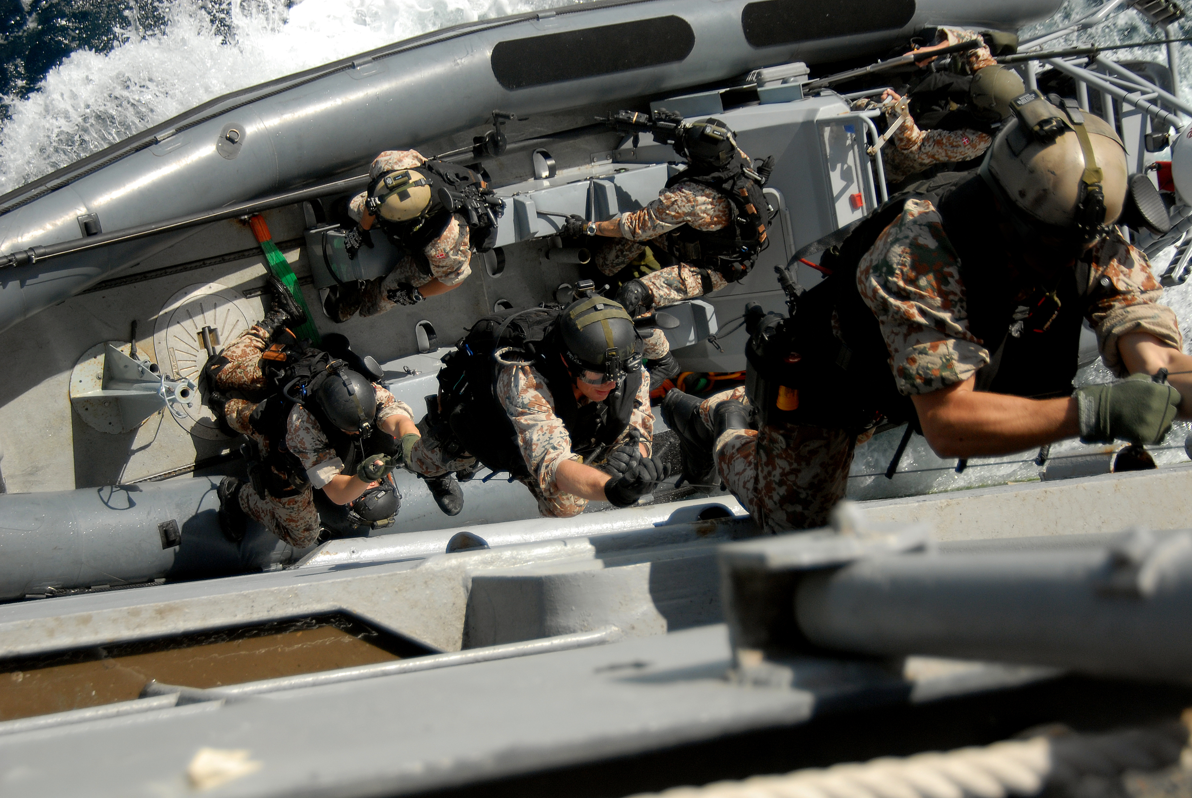 GULF OF ADEN (Feb. 19, 2009) The visit, board, search and seizure team assigned to the Danish flexible support ship HDMS Absalon (L 16) trains by boarding the guided-missile cruiser USS Vella Gulf (CG 72). Vella Gulf is the flagship for Combined Task Force 151, a multi-national task force conducting counter-piracy operations to detect and deter piracy in and around the Gulf of Aden, Arabian Gulf, Indian Ocean and Red Sea. (U.S. Navy photo by Mass Communication Specialist 2nd Class Joan E. Kretschmer/Released)